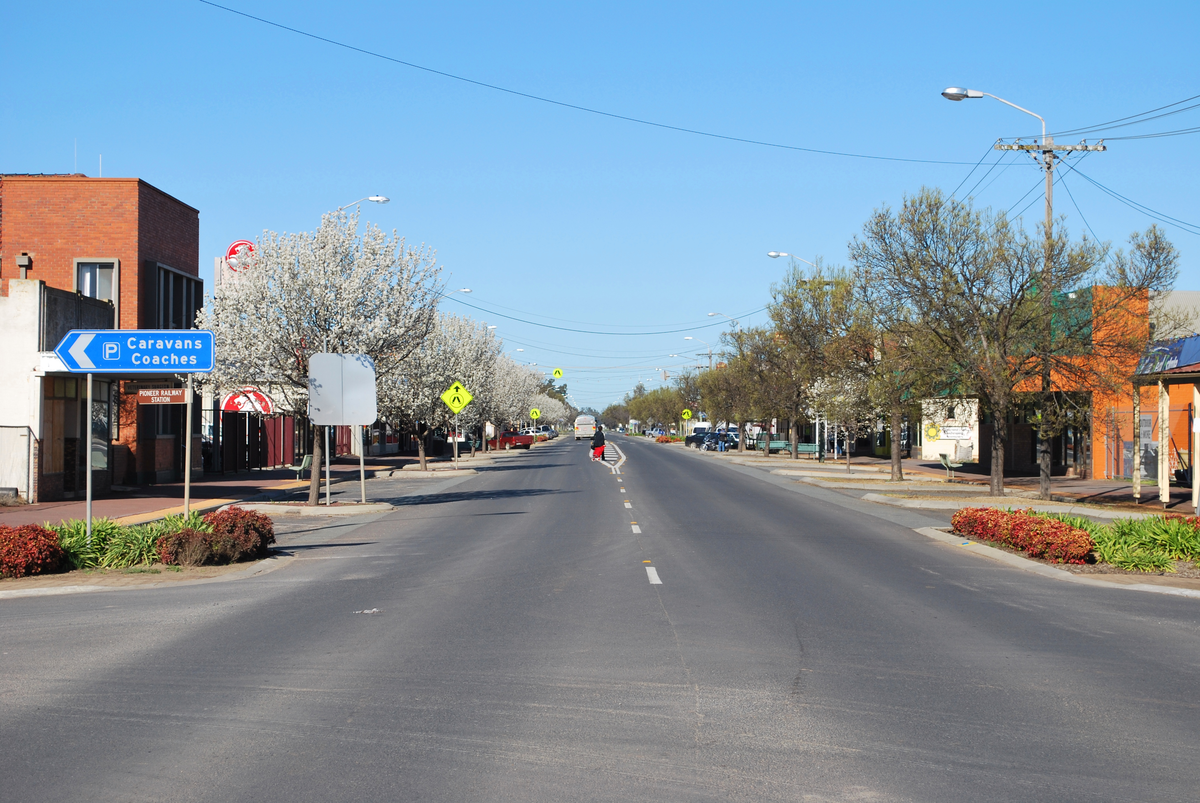 Dean St (Newell Highway) the main street of Finley, New South Wales